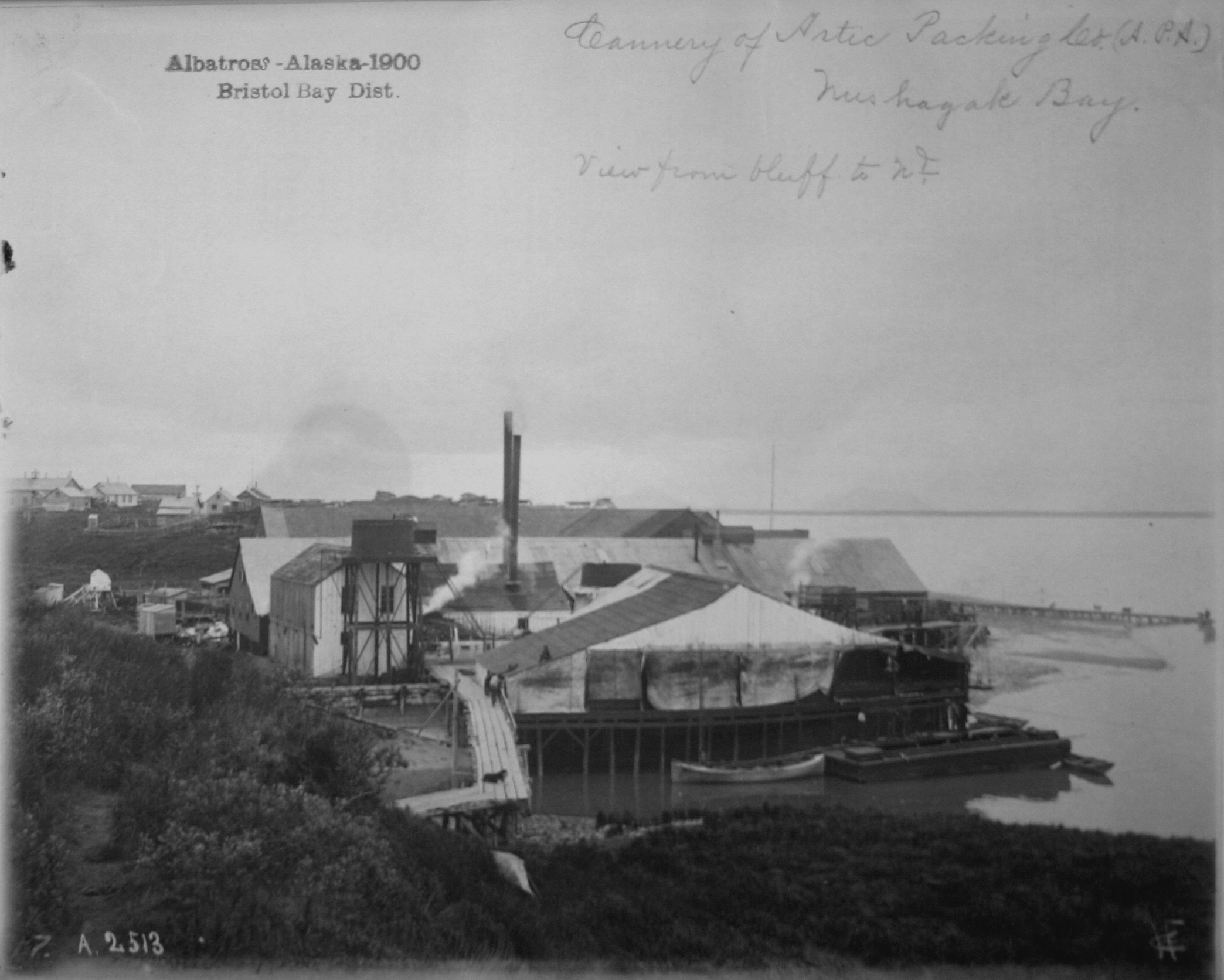 Bristol Bay district, cannery of Artic Packing Co. (A.P.A.), Nuskagak Bay, view from bluff to north. Note the "double-ender" boat in the harbor. Credit: Gulf of Maine Cod Project, NOAA National Marine Sanctuaries; Courtesy of National Archives Category: Historic Fisheries/